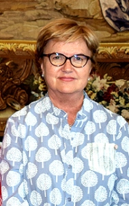 Isaura Leal Fernández, Comisionada del Gobierno para el Reto Demográfico en 2018